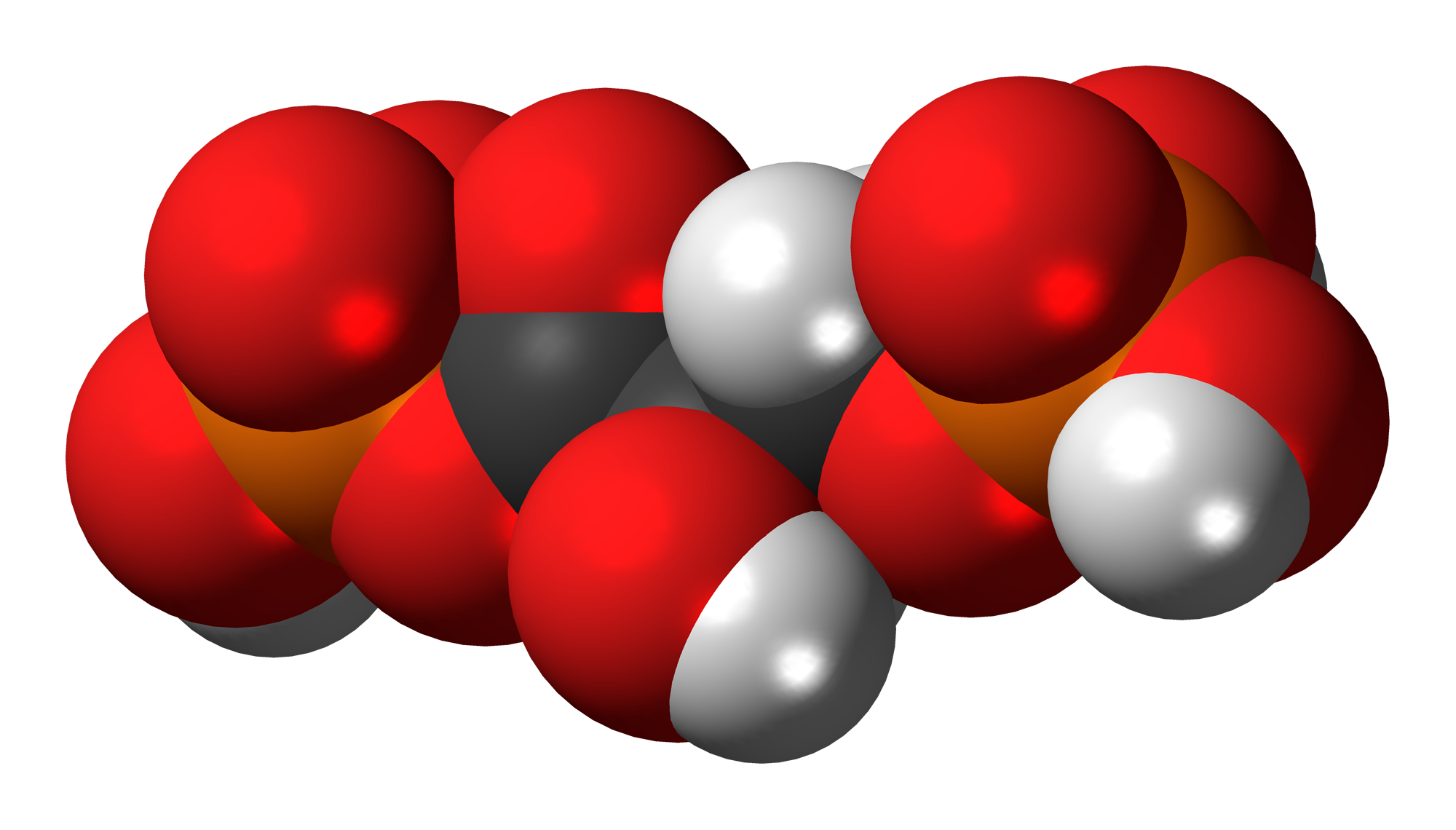 Space-filling model of the 1,3-bisphosphoglyceric acid molecule, a biological intermediate present in most, if not all, living organisms. Colour code: Carbon, C: black Hydrogen, H: white Oxygen, O: red Phosphorus, P: orange